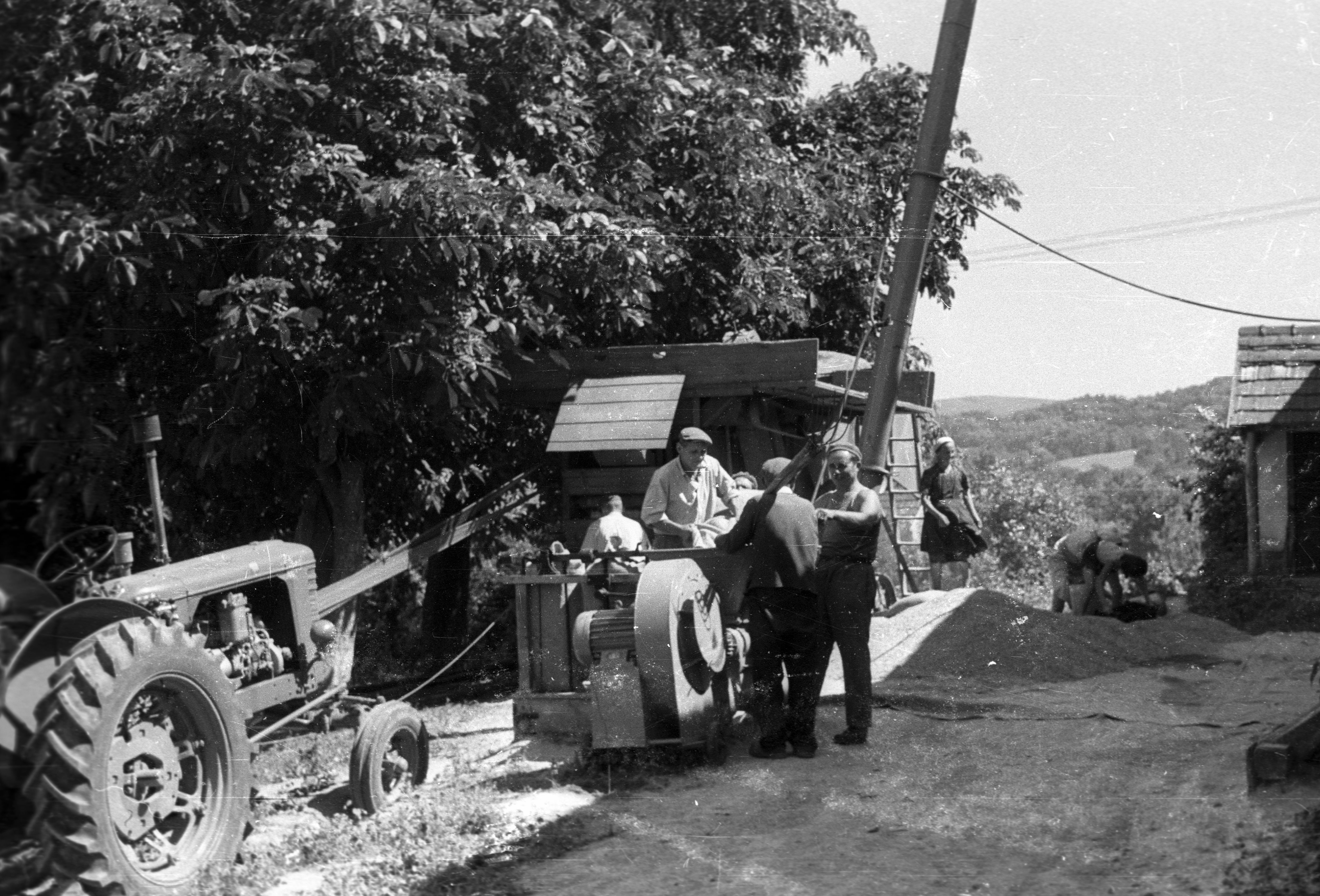 Unidentified location in Hungary (probably) Tags: tractor, harvest, threshing, threshing machine